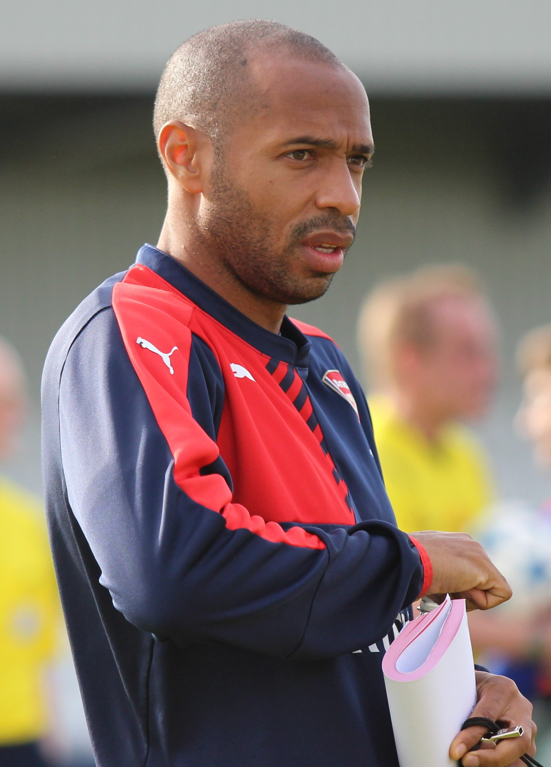 Arsenal youth team coach Thierry Henry after the game against Olympiacos.